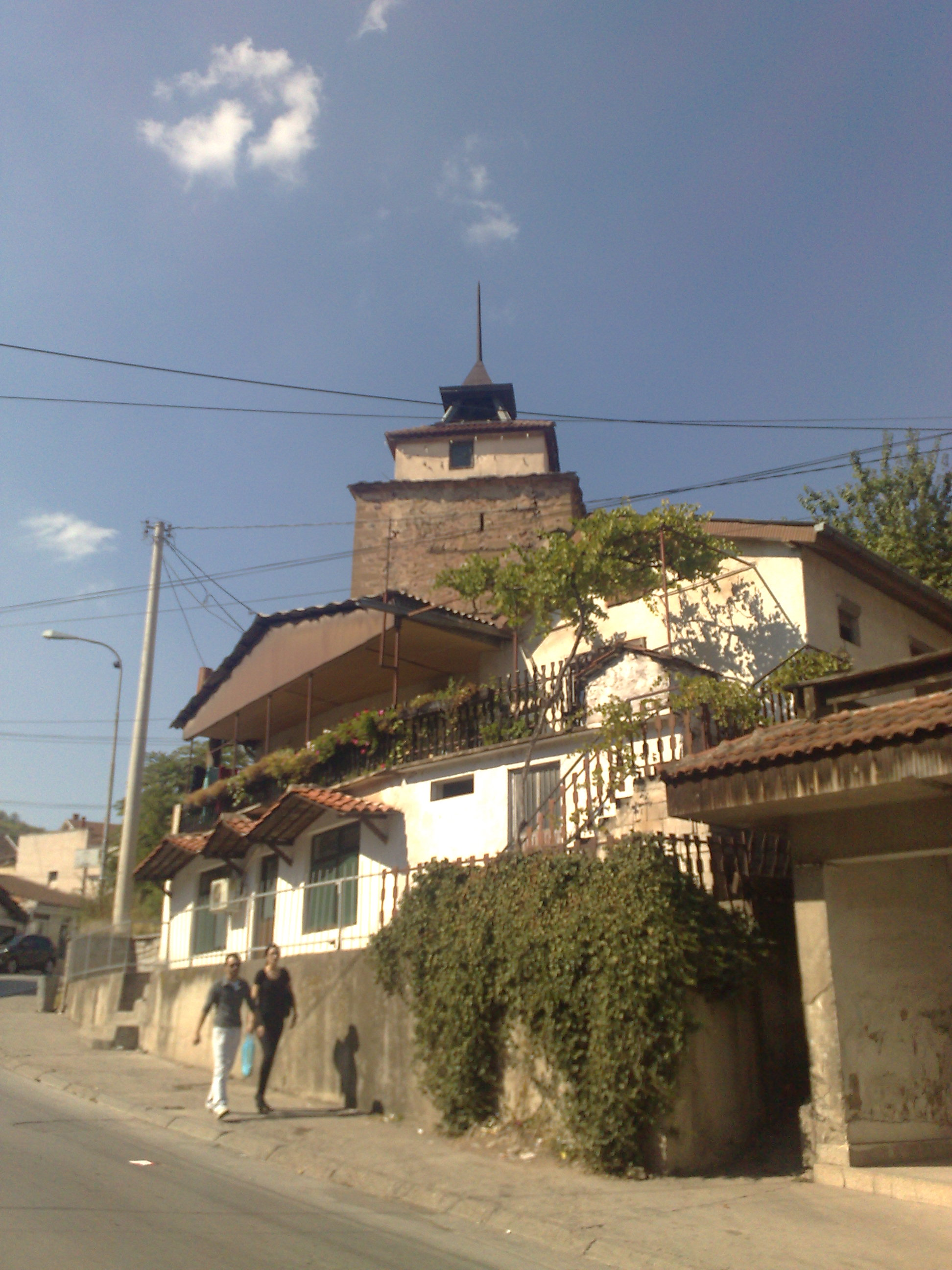 The clock tower in Shtip, Macedonia